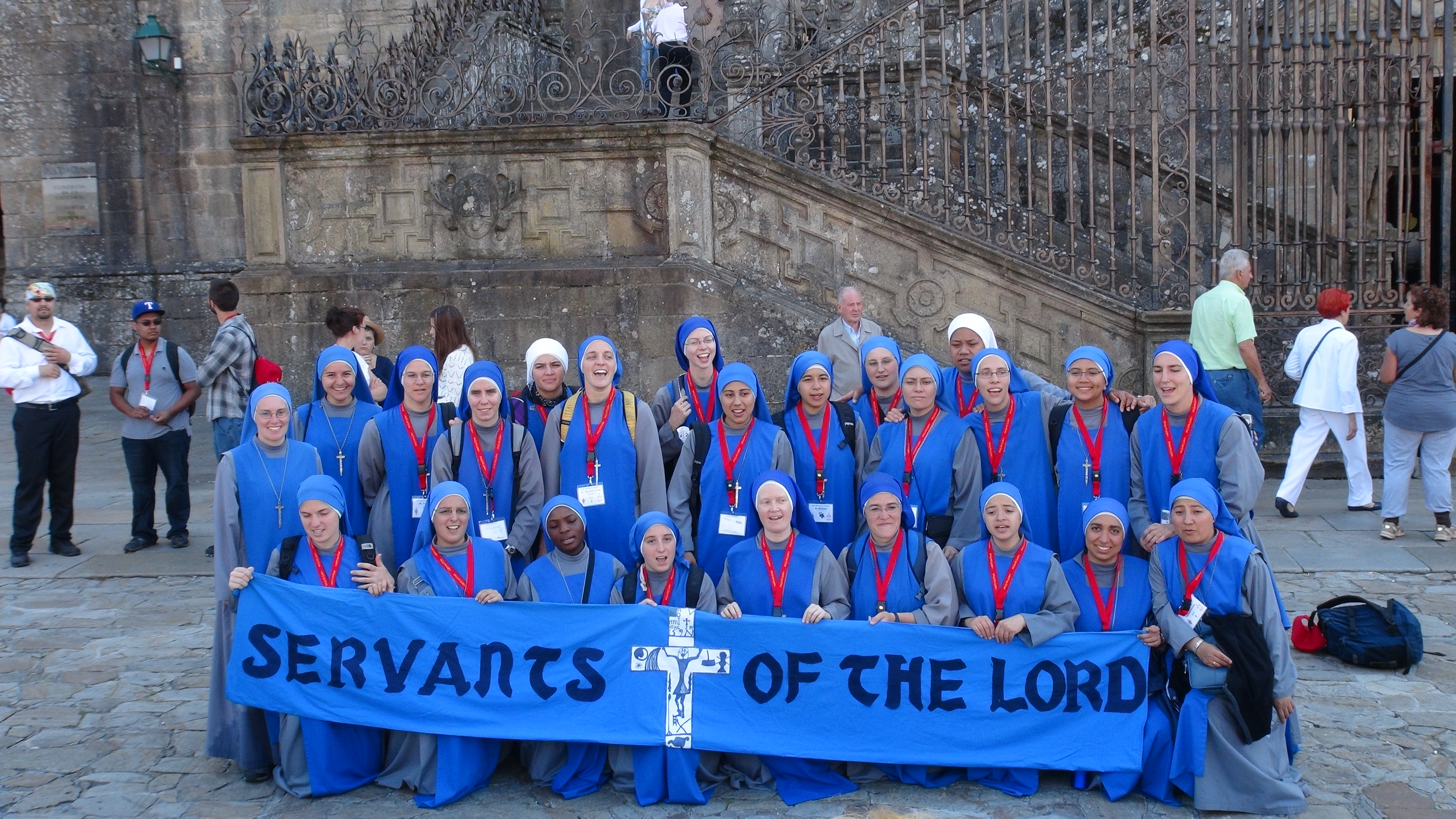 Our SSVM in Santiago de Compostela during WYD 2011